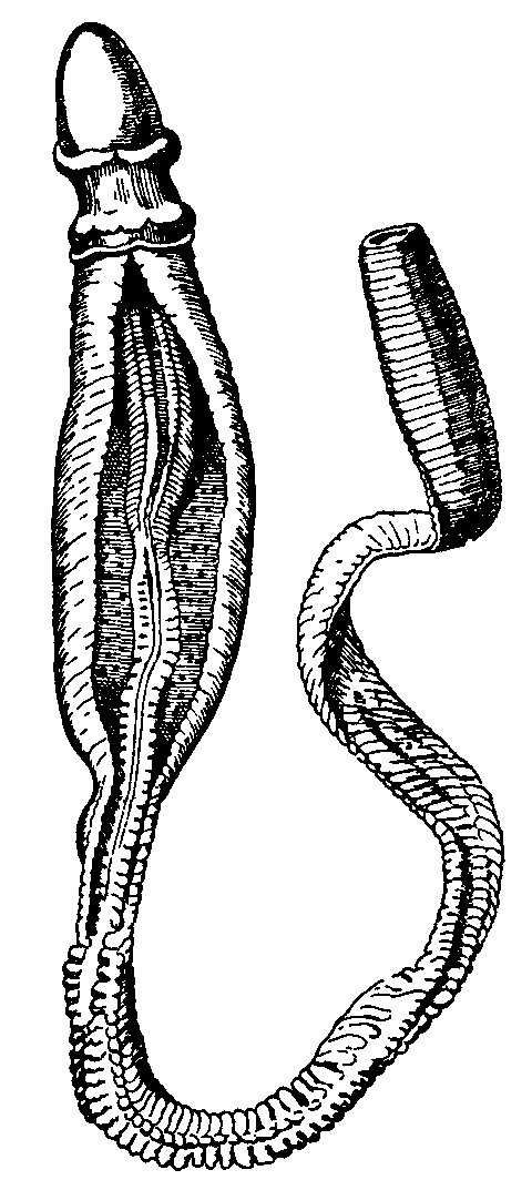 A drawing of an acorn worm (Ptychodera flava) from New Caledonia.